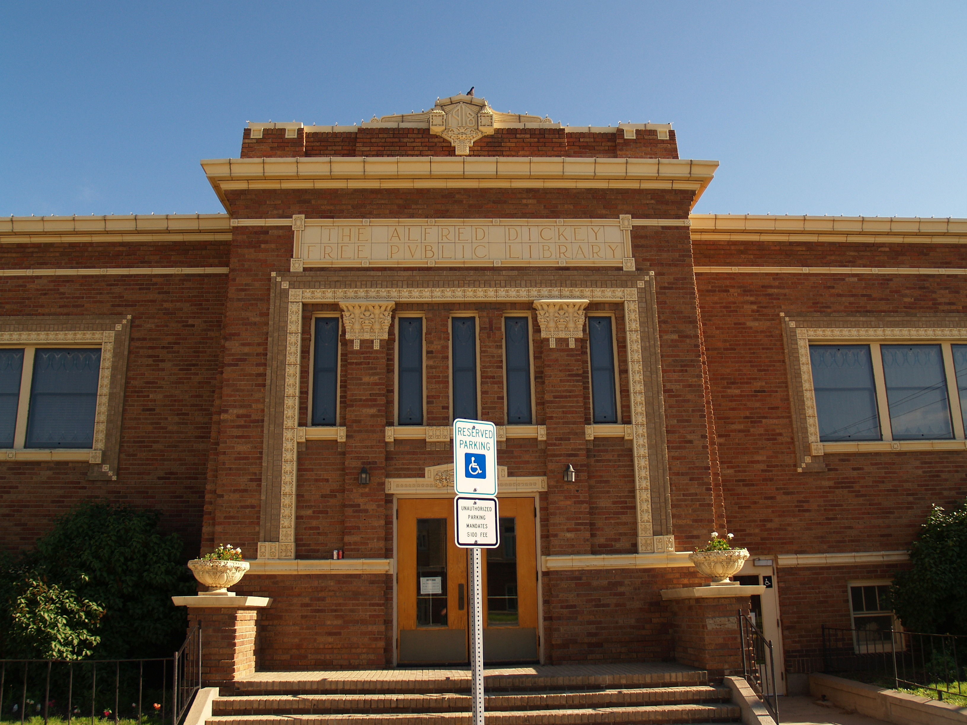 NRHP-listed Alfred E. Dickey Free Library in Jamestown, North Dakota. The building is marked with "1918" near the roofline, and further down is "THE ALFRED DICKEY FREE PVBLIC LIBRARY".